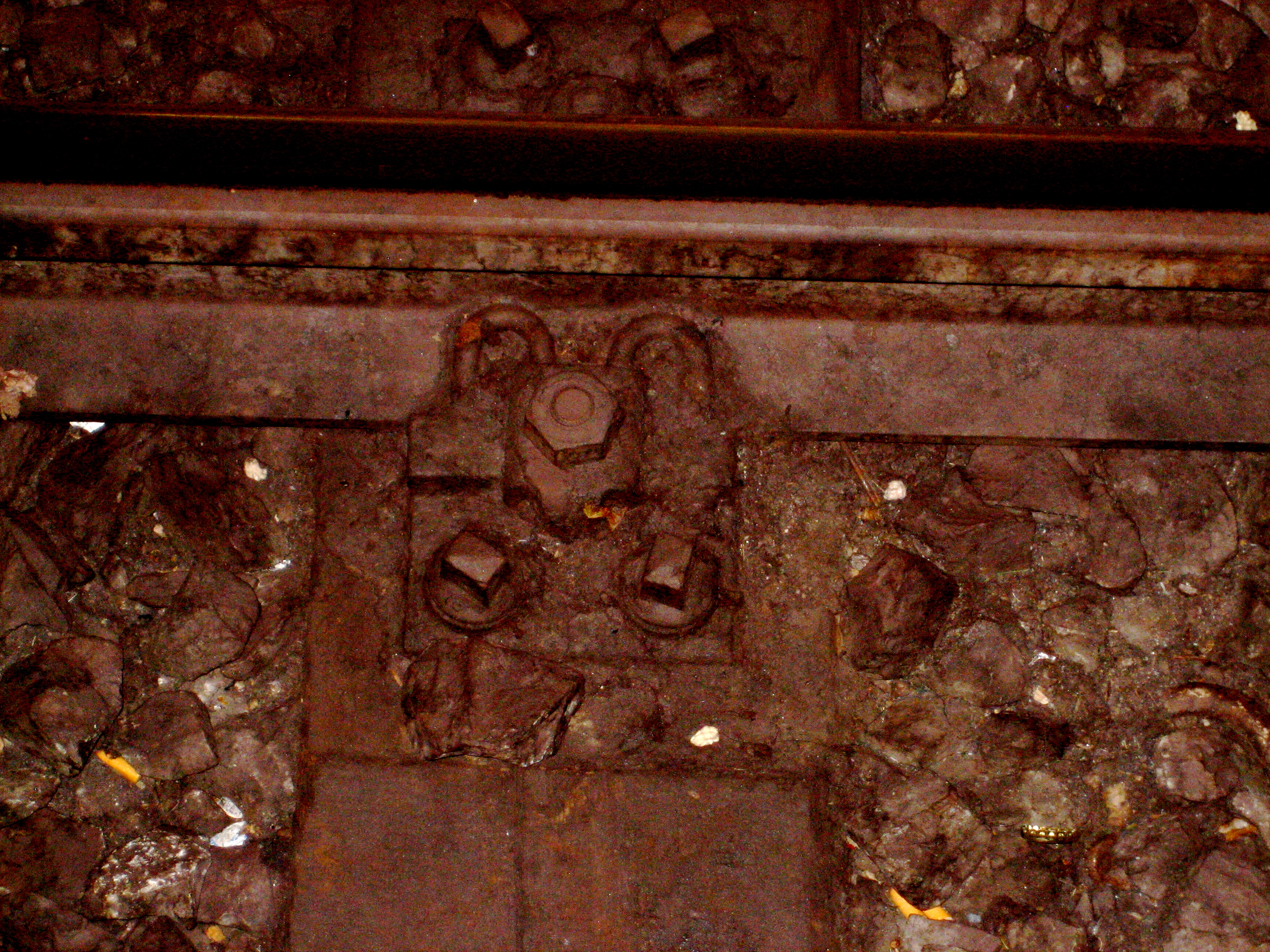 Bäseler Spring in Munich Central Station